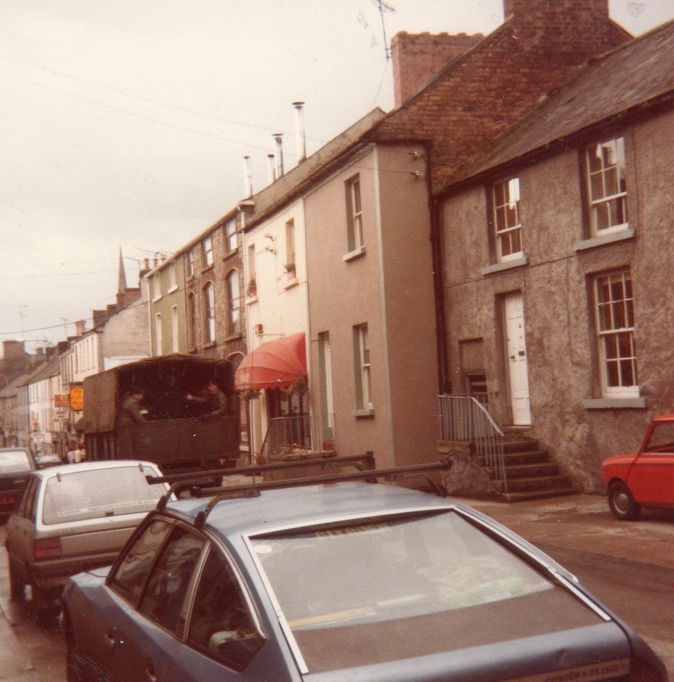 Category:Glaslough Street, Monaghan